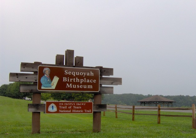 Entrance to the Sequoyah Birthplace Museum in Vonore, Tennessee. Sequoyah, the inventor of the Cherokee alphabet, was born in nearby Tuskegee (now submerged) around 1760.